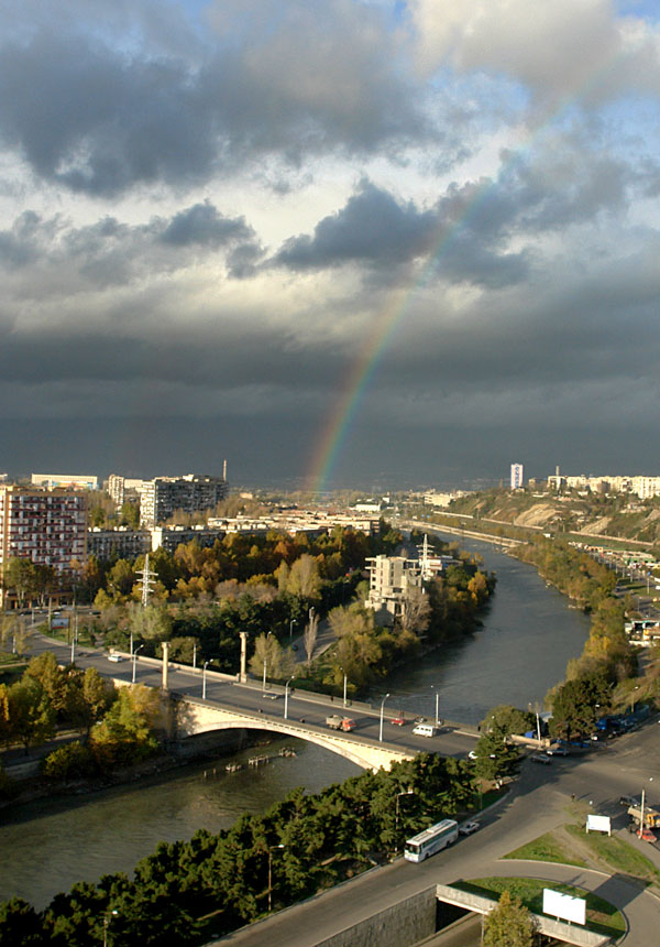 Rainbow in Tbilisi, Georgia